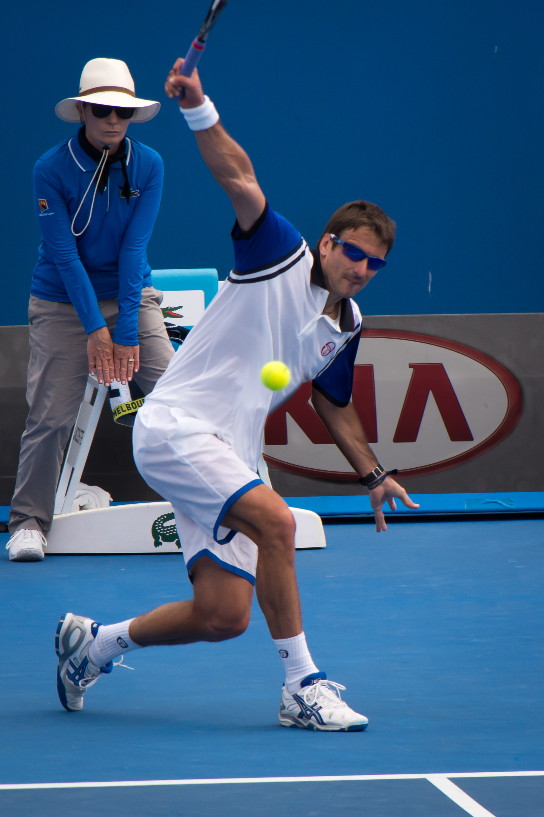 Tommy Robredo (ESP) [17] during his 2nd round 4-set win to Julien Benneteau (FRA) at the 2014 Australian Open on Show Court 2.